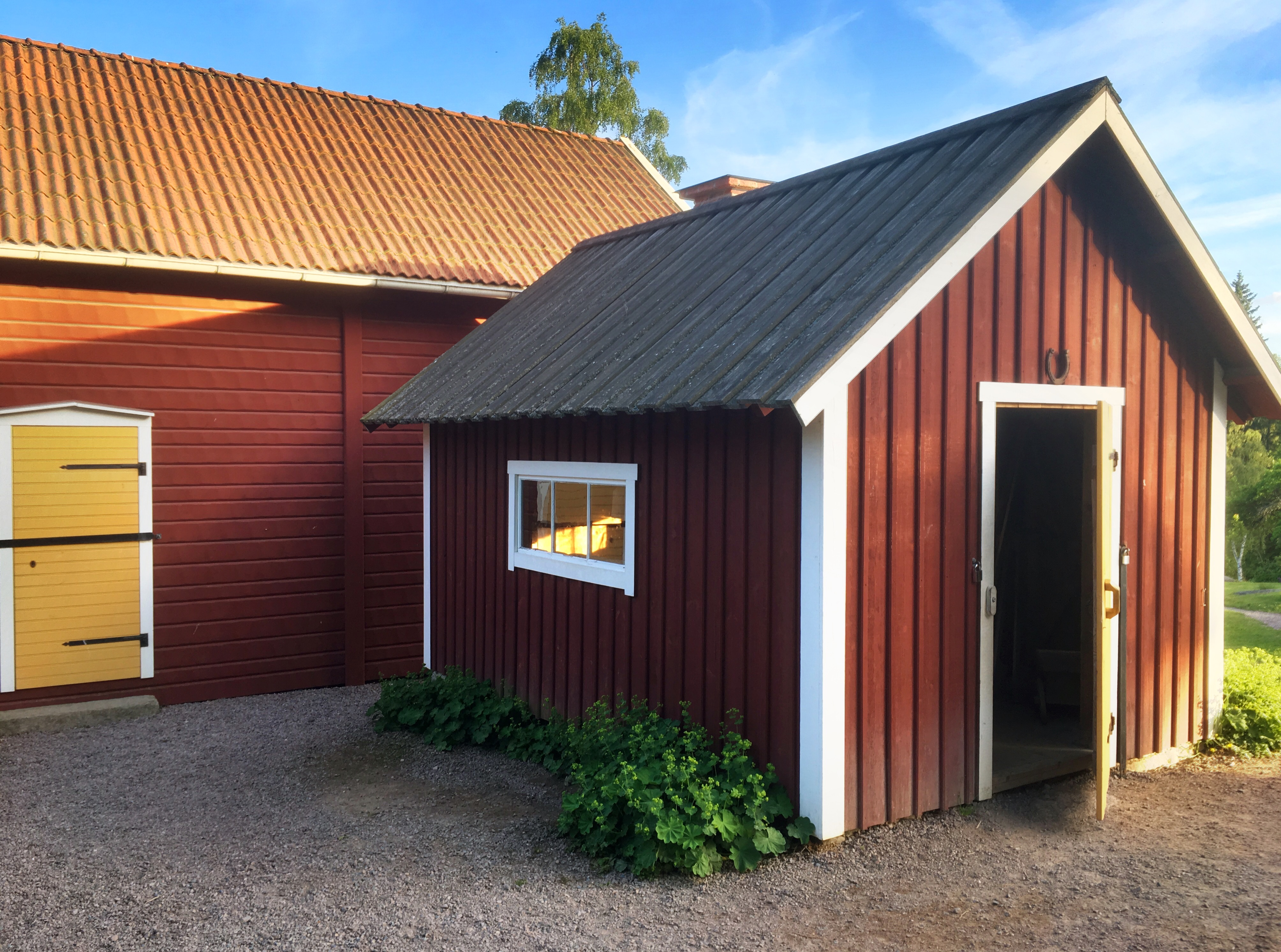 Emils snickerboa i den han sitter när han begrundar sina hyss och täljar trägubbar.